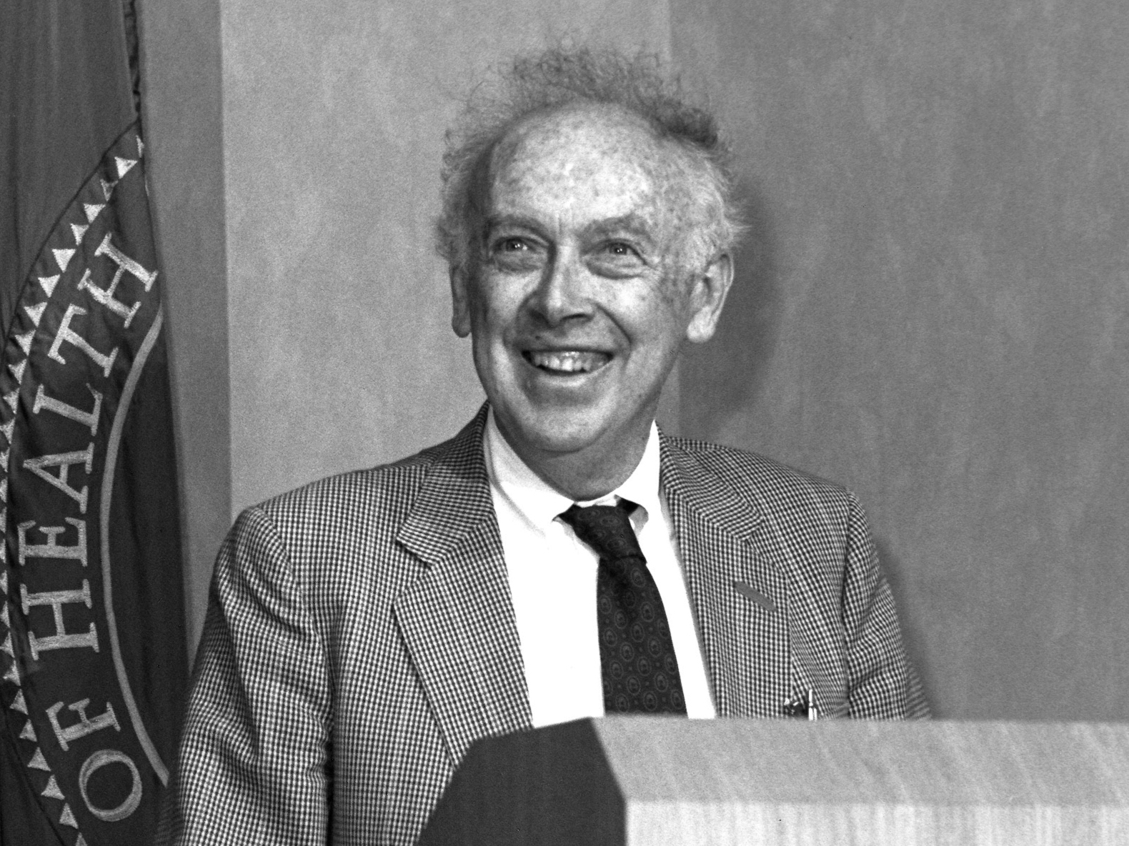 One of the co-discoverers of deoxyribonucleic acid (DNA) with Francis Crick. Between 1988-1992, Dr. Watson was associated with the National Institutes of Health helping to establish the Human Genome Project.